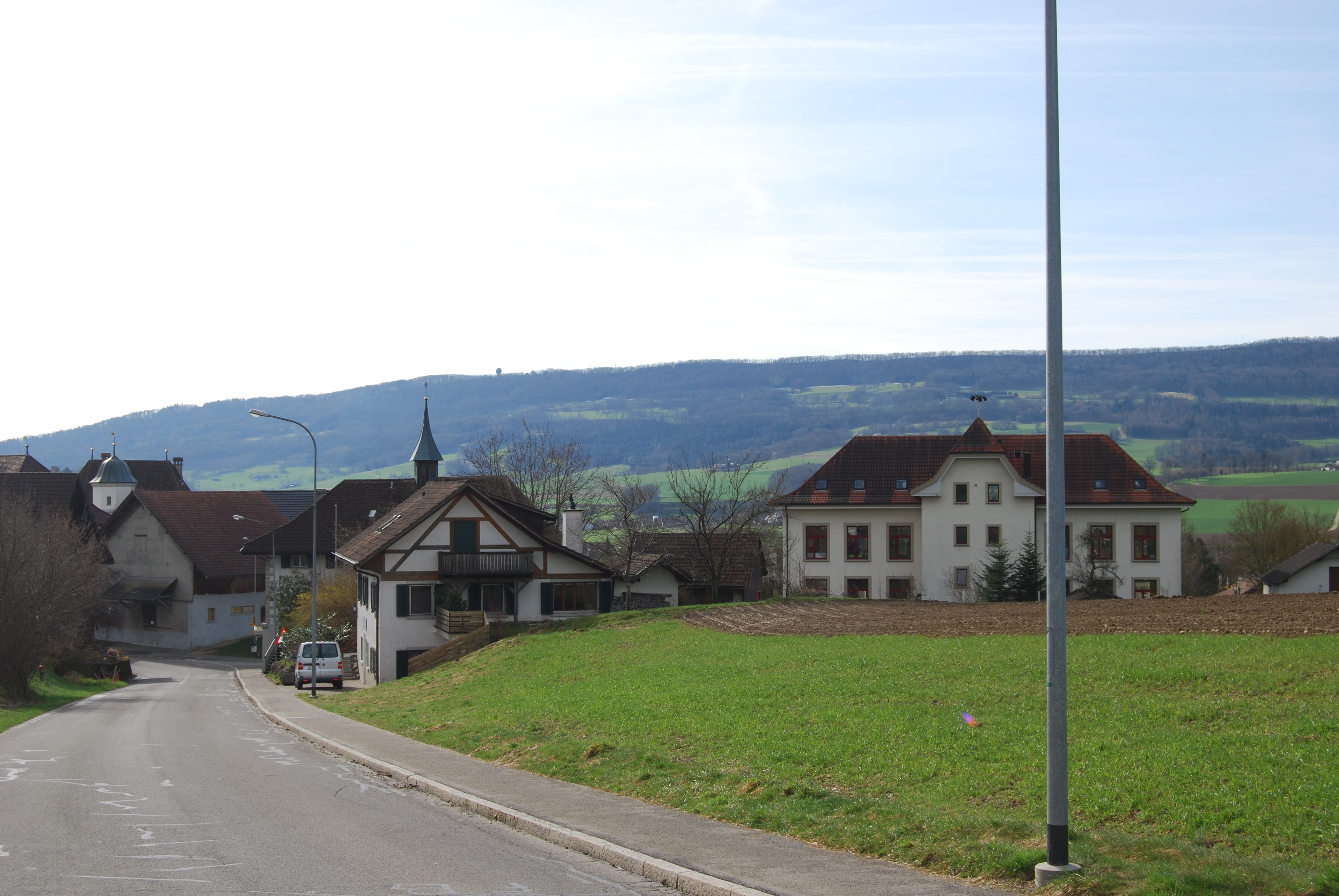 Schneisingen, canton of Aargau, SwitzerlandEsperanto: Schneisingen, Kantono Argovio, Svislando